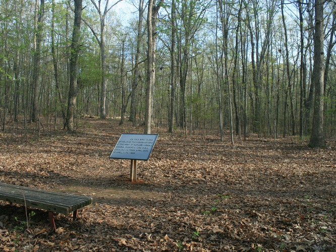 Lee's Appomattox Headquarters site.